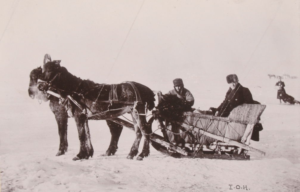 Sledging on Lake Baikal, the icebreaking steamer 'Baikal' was built at Walker in 1896. The gentleman sitting in the back of the sleigh is Mr. Isaac O'Henry who was The Wallsend Slipway's Chief Engineer overseeing the reassembly of the 'Baikal' for four long years! Reference:TWAS:@ DS.SWH/4/PH/6/2 (Copyright) We're happy for you to share this digital image within the spirit of The Commons. Please cite 'Tyne & Wear Archives & Museums' when reusing. Certain restrictions on high quality reproductions and commercial use of the original physical version apply though; if you're unsure please . To purchase a hi-res copy please quoting the title and reference number.